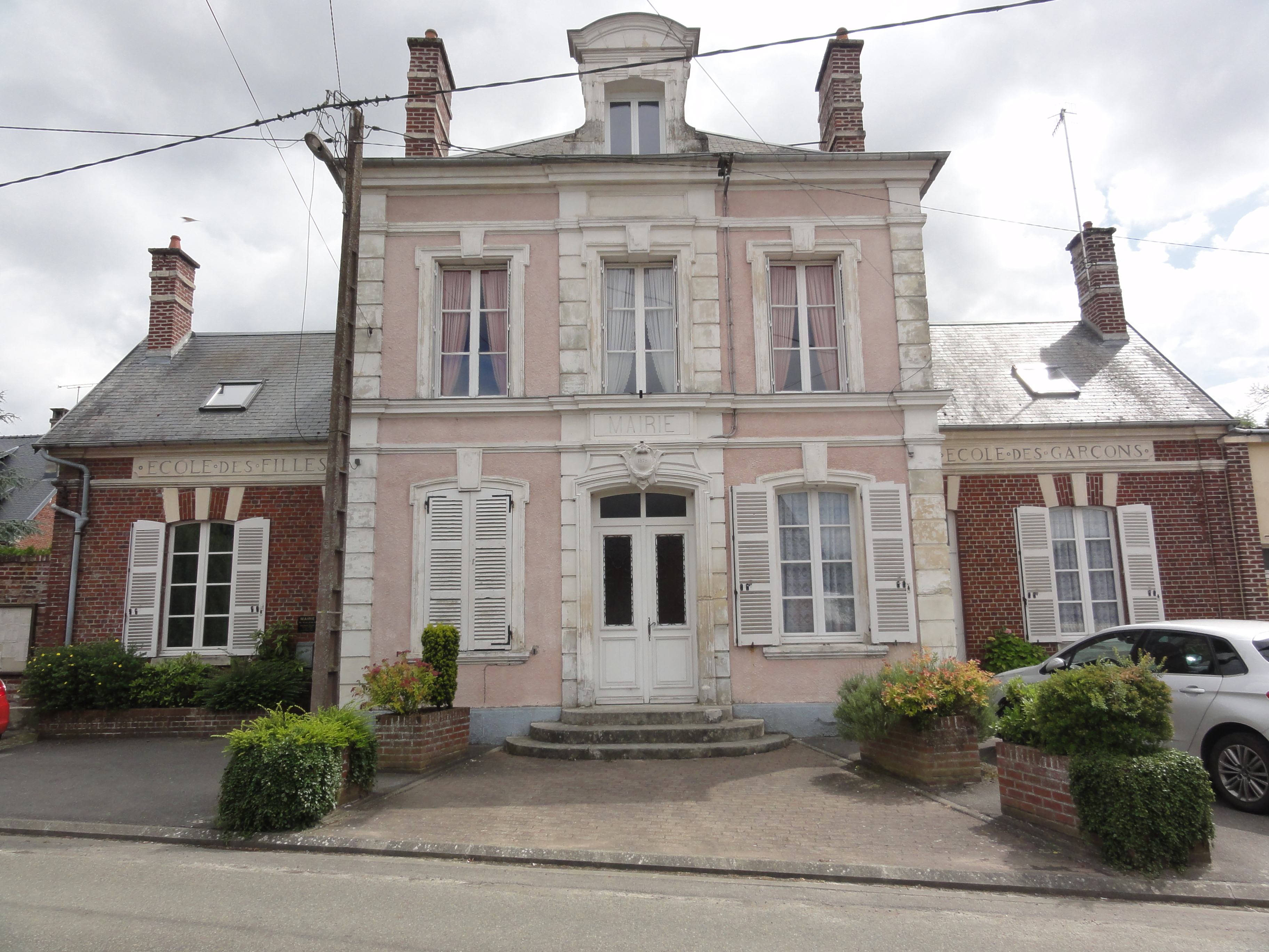 Quierzy (Aisne) mairie-école